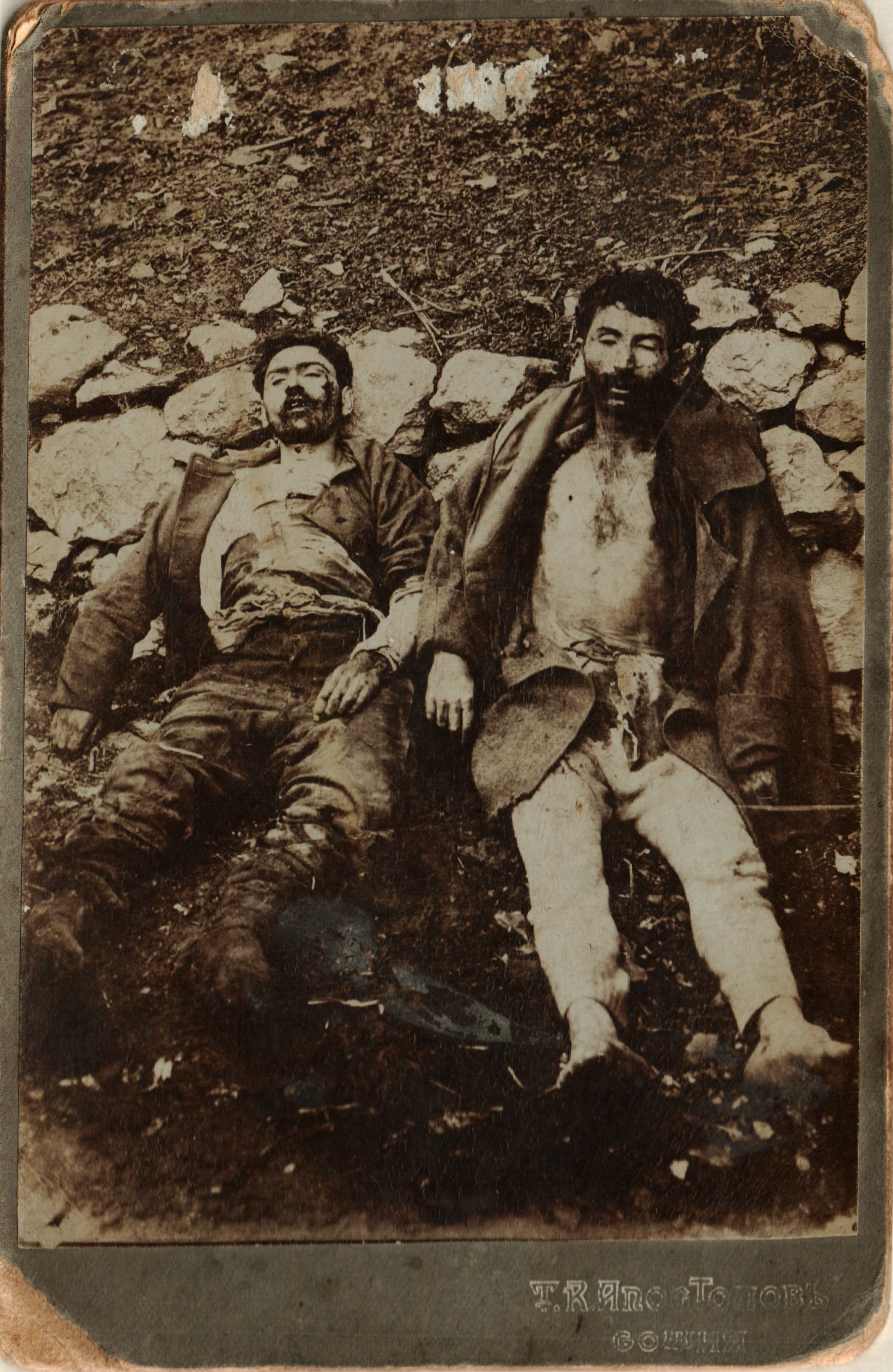 Mitre Vlaha